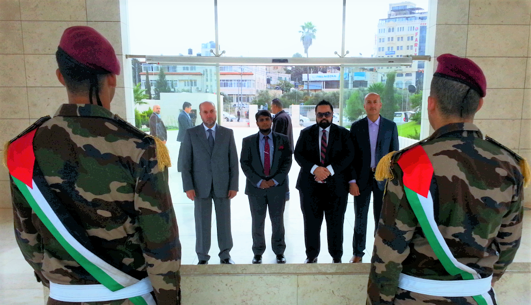 Sayyid Ahmed Amiruddin with the Supreme Shari'ah Judge of Palestine, President Mahmoud Abbas' Advisor on Religious and Islamic Affairs, and Chairman of the Supreme Council for Shari'ah Justice Dr. Mahmoud Al-Habbash at the mausoleum of the late Palestinian National Authority President Yasser Arafat in Ramallah, Palestine.